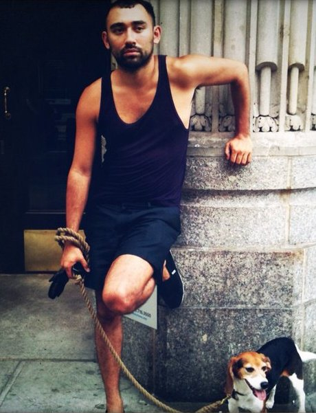 a recent photo of nicola formichetti in nyc